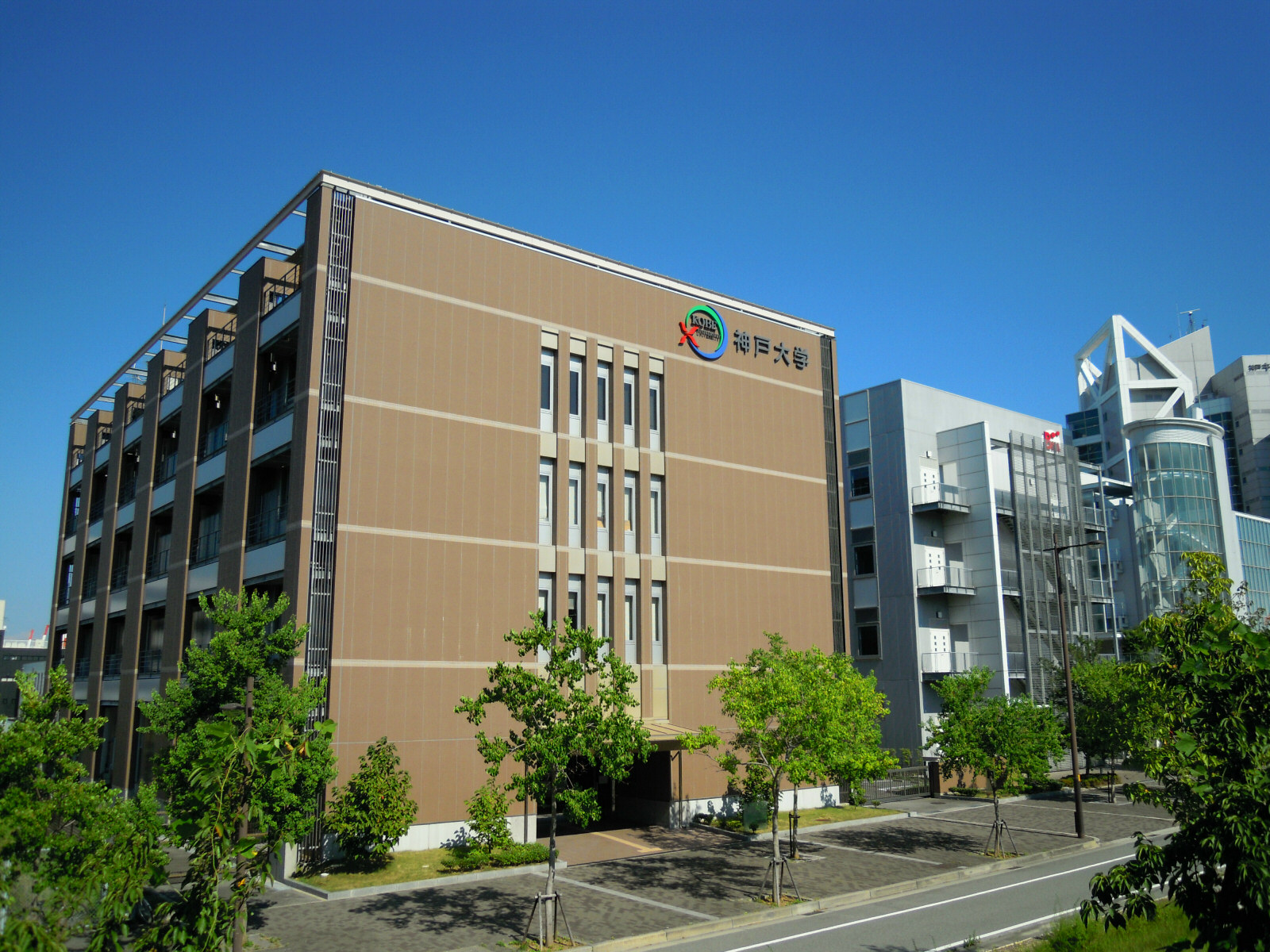 Kobe University